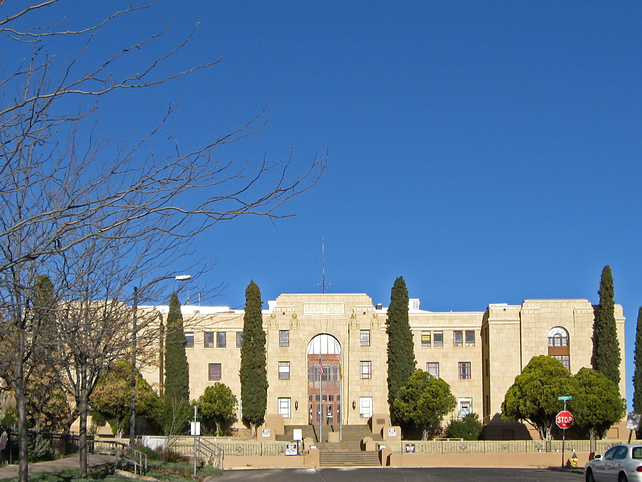 Grant County (New Mexico) Court House, located at 206 North Cooper in Silver City, New Mexico.